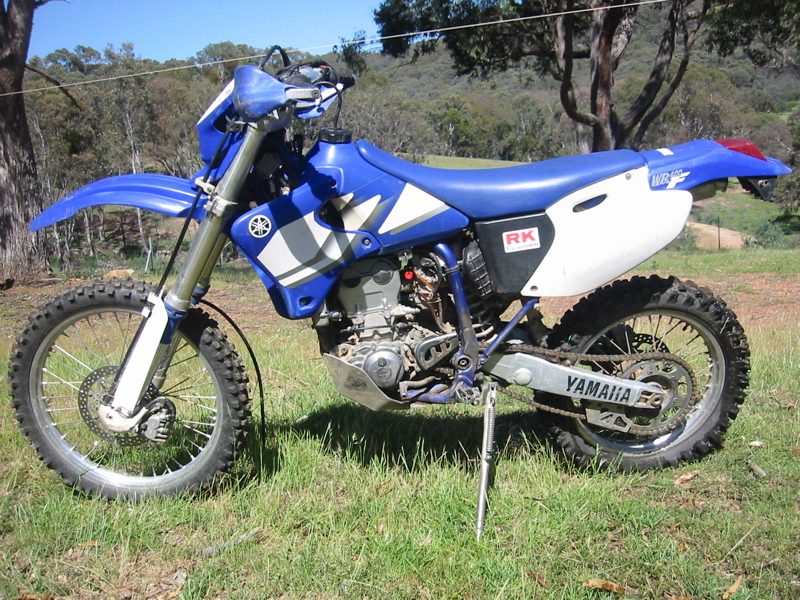 My bike - a 2000 model Yamaha WR 400F - is for sale.